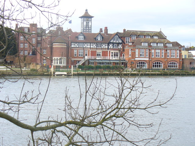 Cross Deep Looking across the Thames towards the Middlesex bank and the striking St James Independent School.